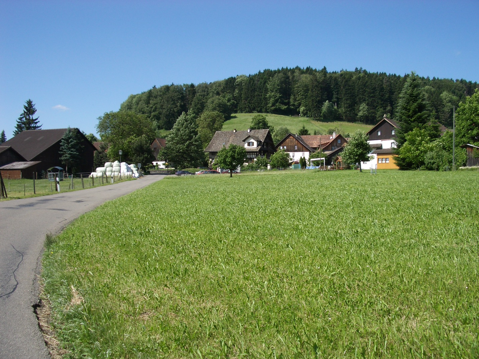 Herferswil ZH, Switzerland